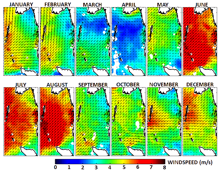 From “General Circulation and Principal Wave modes in Andaman Sea from Observations”